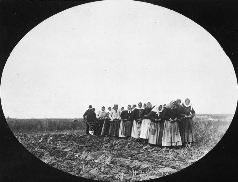 Doukhobor women are shown breaking the prairie sod by pulling a plough themselves, Thunder Hill Colony, Manitoba. c 1899